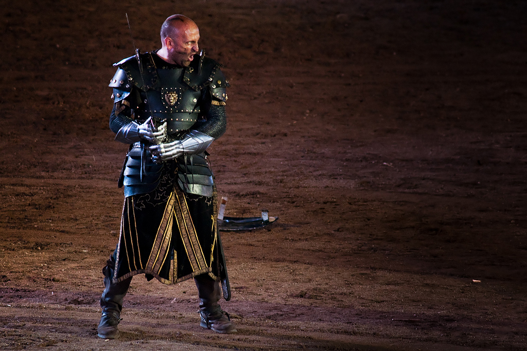 Black knight in Medieval Festival of Hita, Guadalajara, Spain.